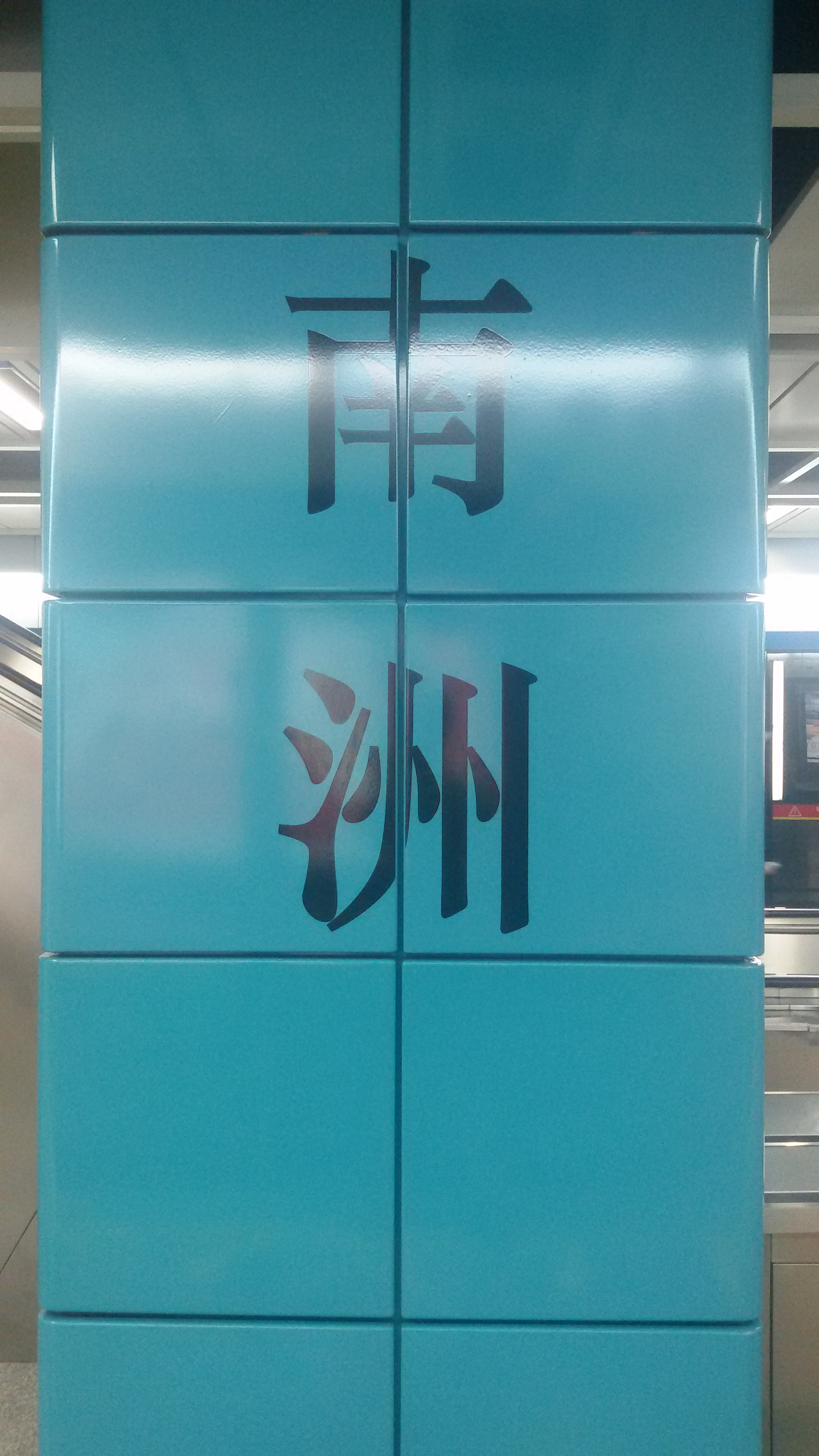 Word on pillar for Nanzhou Station at Line 2 in Guangzhou Metro